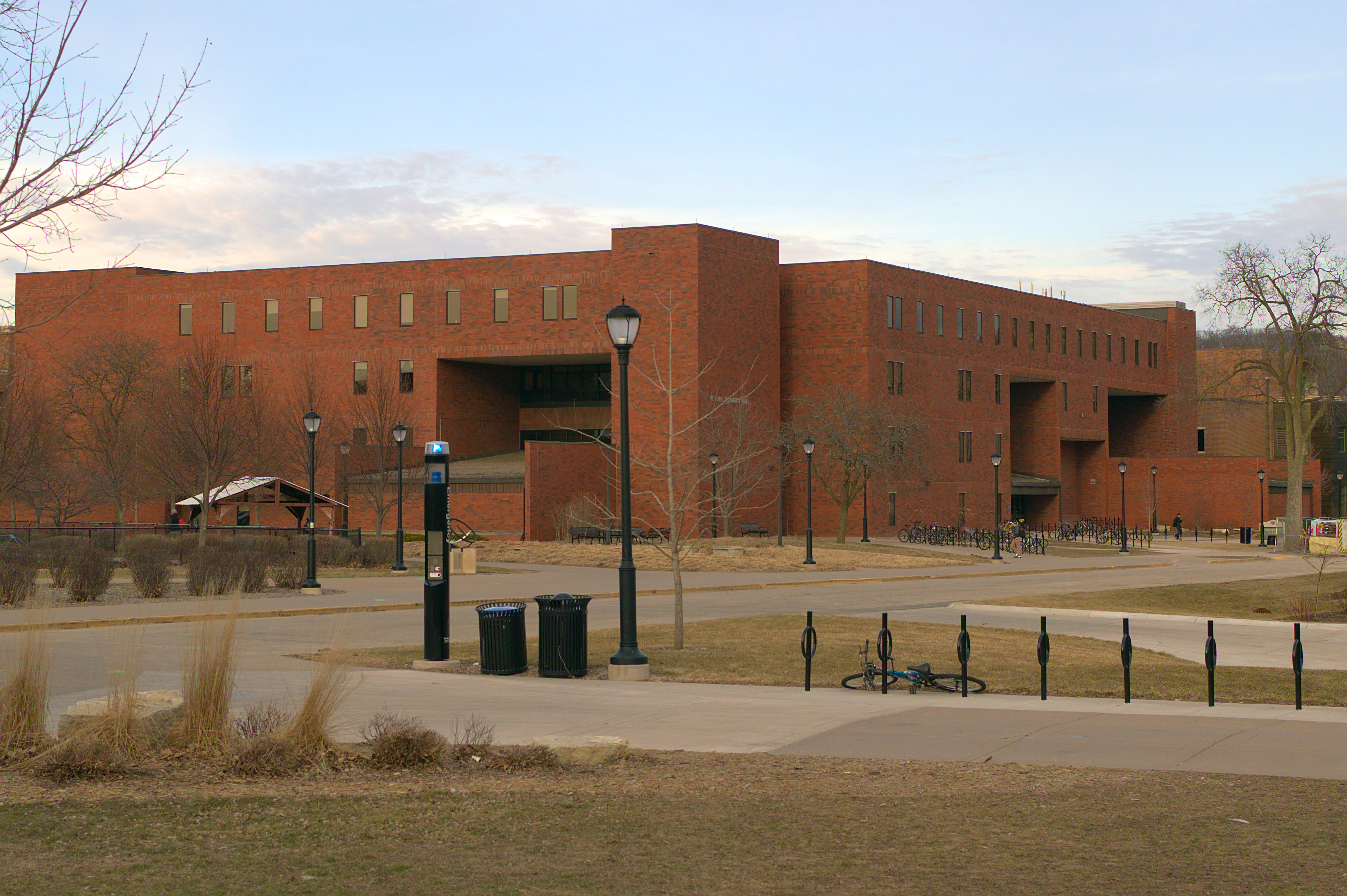 Wimberly Hall, located on the north end of campus, is home to the English, Political Science / Public Administration, Business, and Finance Offices, among others.